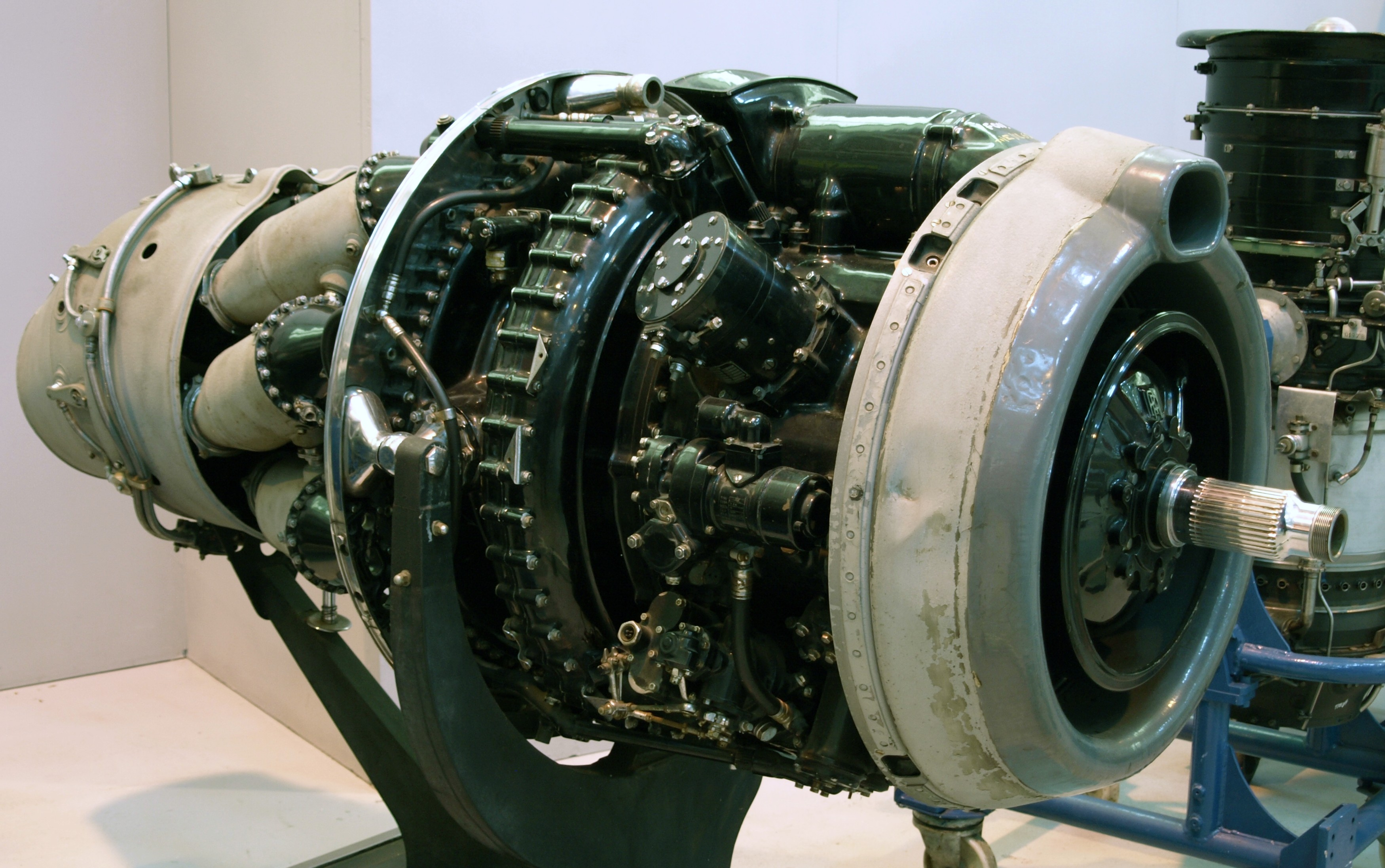 Rolls-Royce Dart R Da. 3 Mk506 turboprop engine at the Royal Air Force Museum, Cosford.